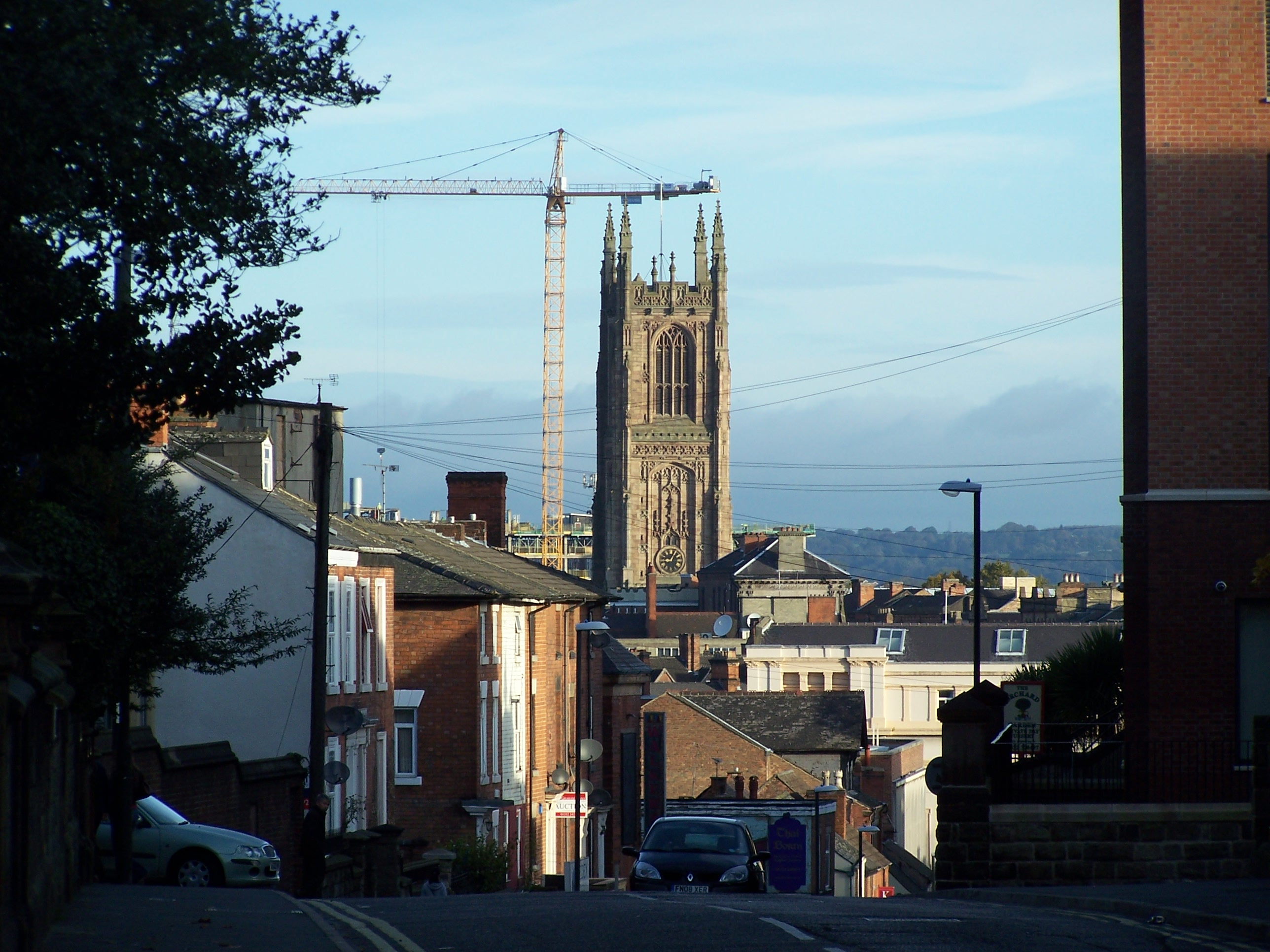 View of Cathedral Derby from Green Lane